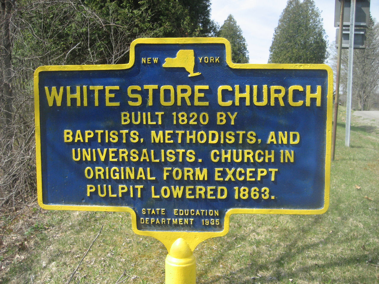 Historic marker of the White Store Church, Norwich, NY. The church was built in 1820 by Baptists, Methodist, and Universalists. The building is in its original form except the pulpit was lowered in 1863.